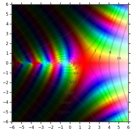 Color plot of the complex gamma function. Color map: standard HSL.